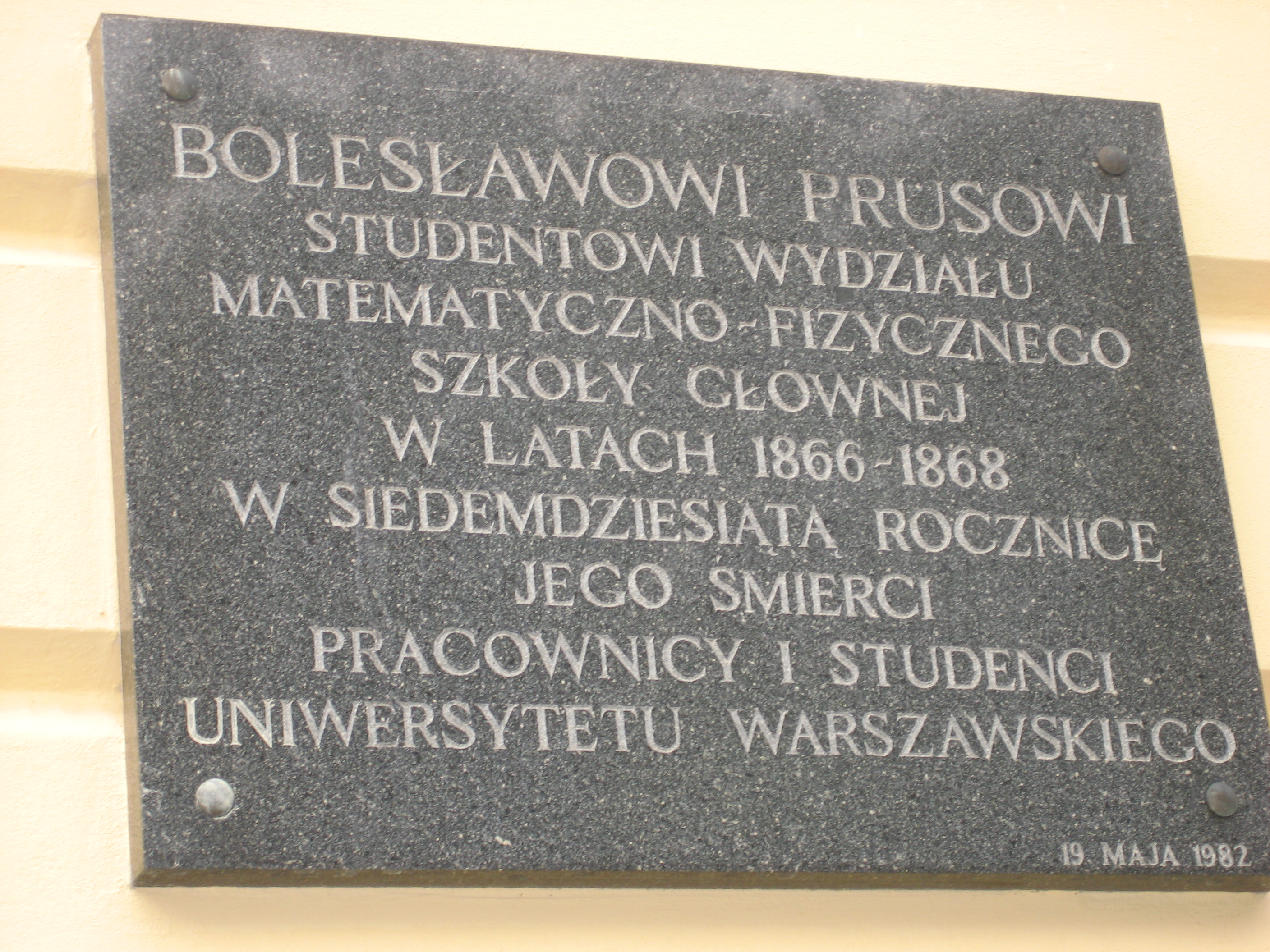 Plaque on facade of Warsaw University's Kazimierz Palace (in Polish, "Pałac Kazimierzowski"), dedicated "To Bolesław Prus, student in the Mathematical-Physical Department of the Main School [i.e., of Warsaw University] in the years 1866-1868, on the seventieth anniversary of his death. The staff and students of Warsaw University, 19 May 1982."